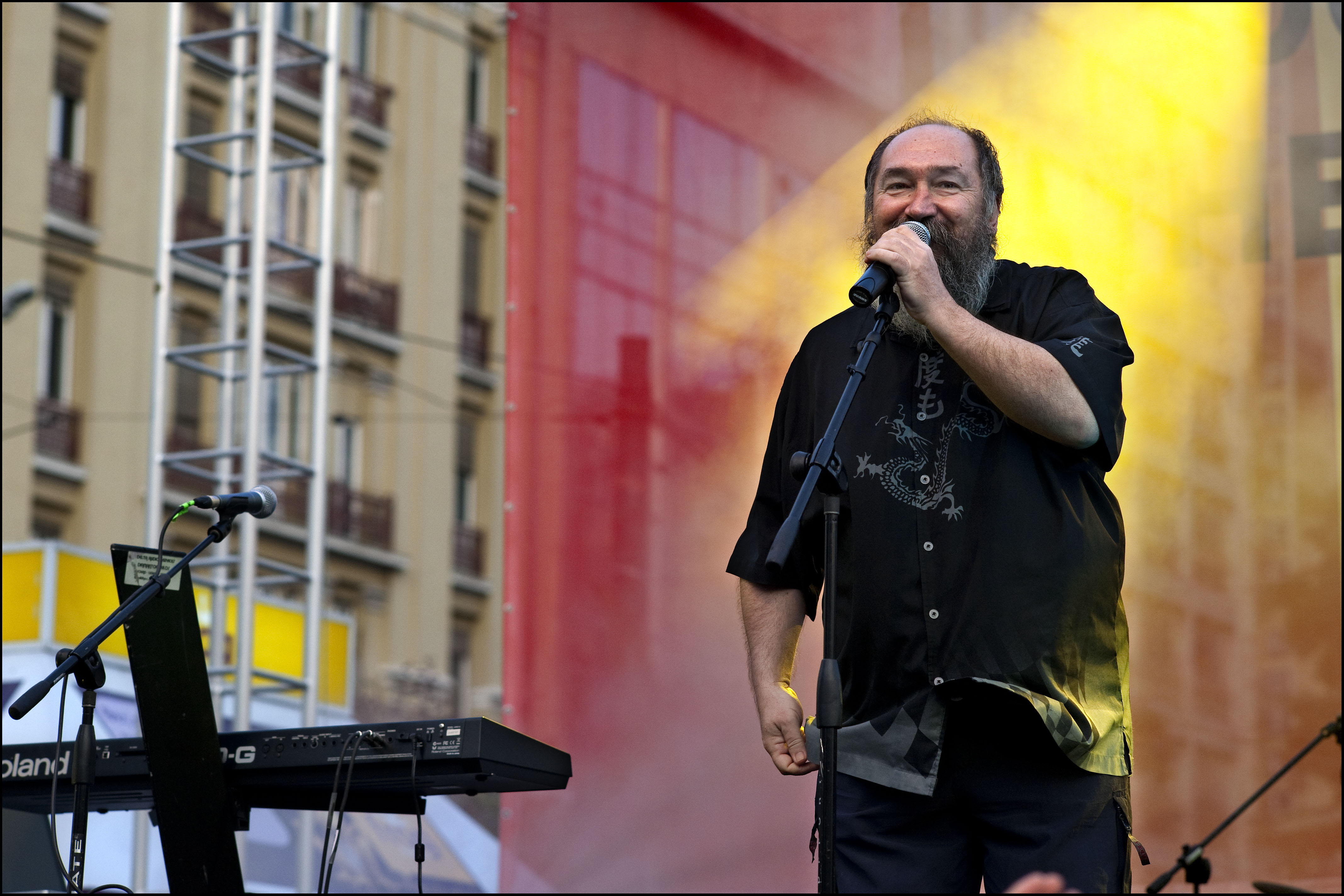 Portrait of Tzimis Panousis (Greek musician / comedian Tzimis_Panousis) / photograph from the live performance at Athens Pride 2009 / Kalthmonos square, Athens.